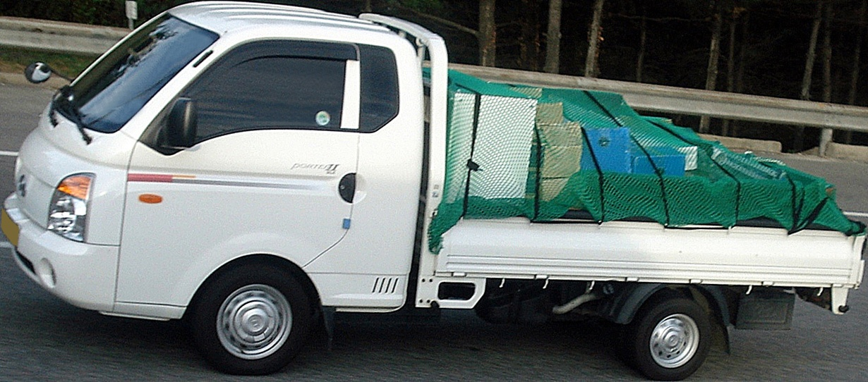 Hyundai Porter2